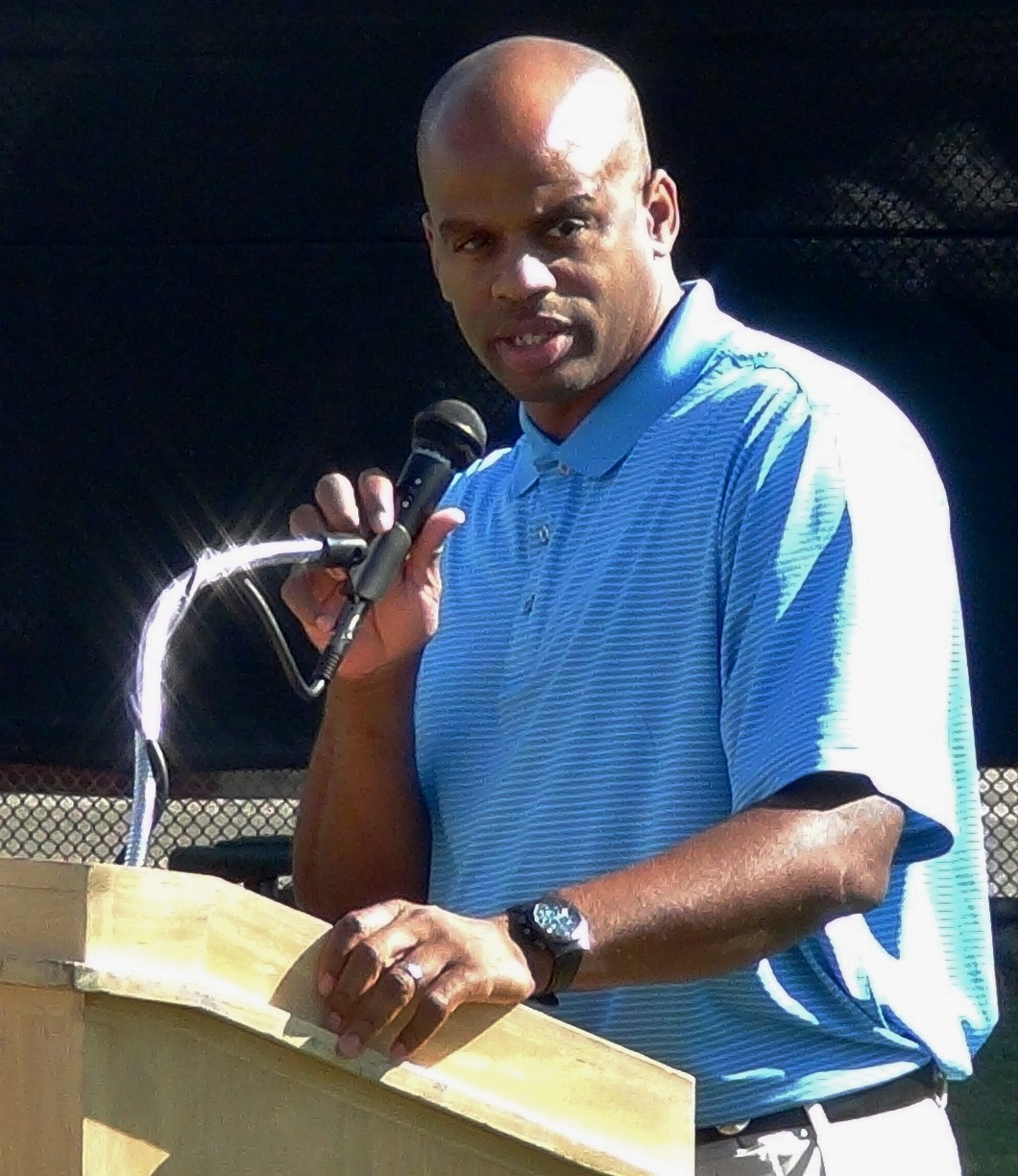 San Jose State University men's basketball head coach Jean Prioleau speaks at a fundraising event at the football team's practice field.